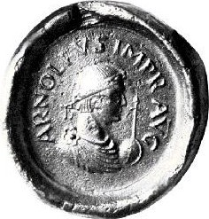 Seal of Arnulph of Carinthia, from 896.